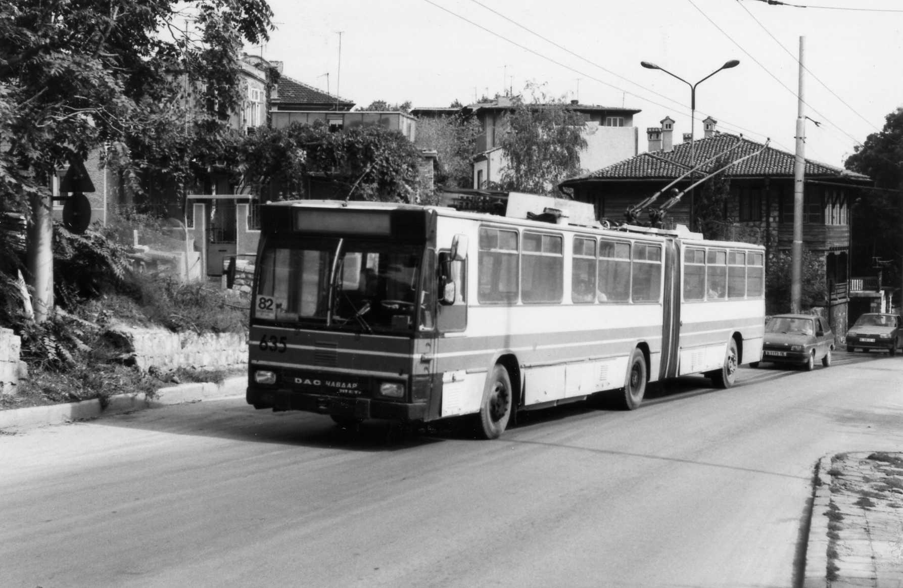 DAC Chavdar number 635 on Route 82. Skoda 14Tr trolleybuses in a blue livery shared duties in Varna. The DACs are no longer operated. The fleet number is actually 63, as seen in this thread with check number 5. Location - ul. Kozloduy, Varna.